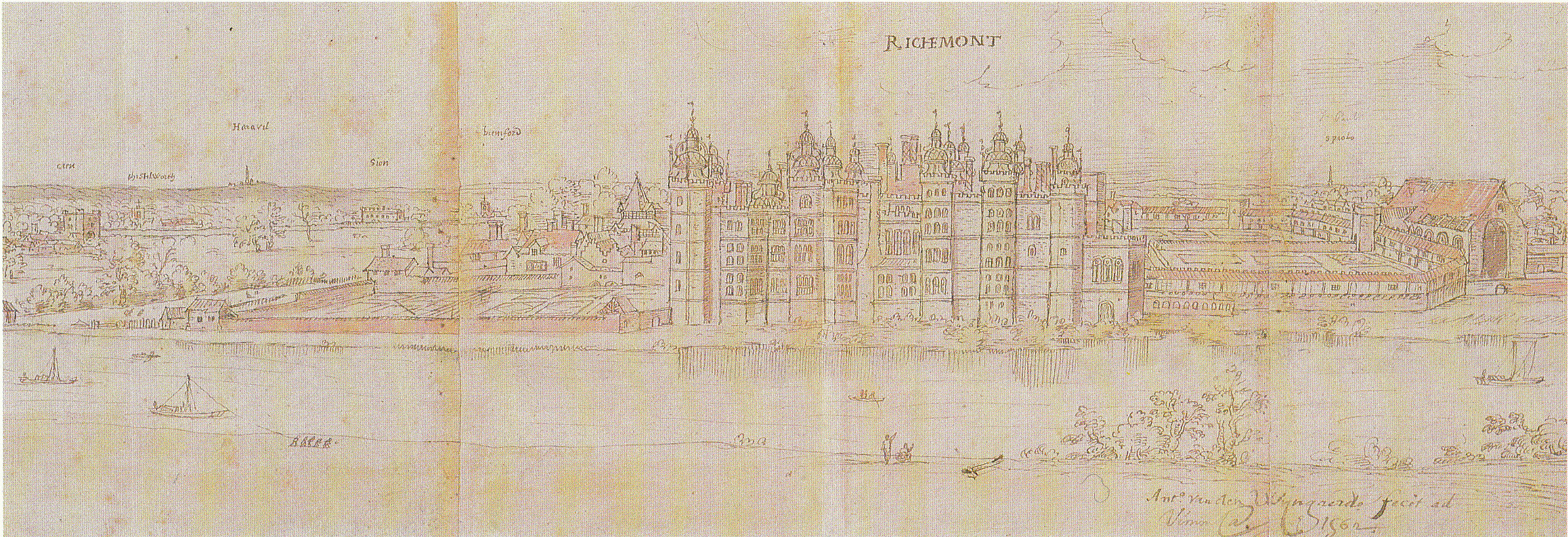 Richmond Palace from SW by Wyngaerde c.1558-62. Ashmolean Museum, Oxford. From left: Great Kitchen (with pointed roof), main Palace Donjon, Galleried gardens, Ruined church of Friars Observant (founded 1502) per Thurley, S. Royal Palaces of Tudor England, London, 1993, pp.32-3.